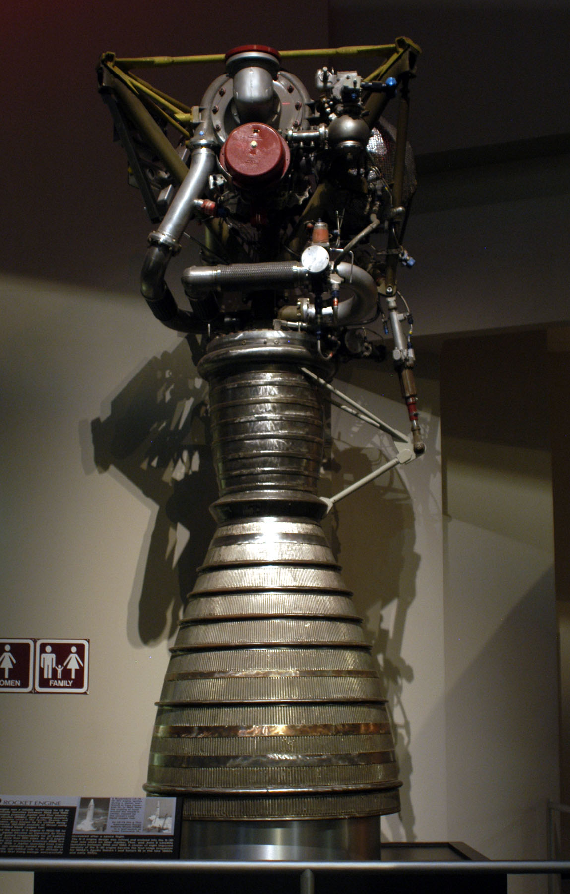 Rocketdyne LR79 on display in the Cold War Gallery at the National Museum of the United States Air Force.